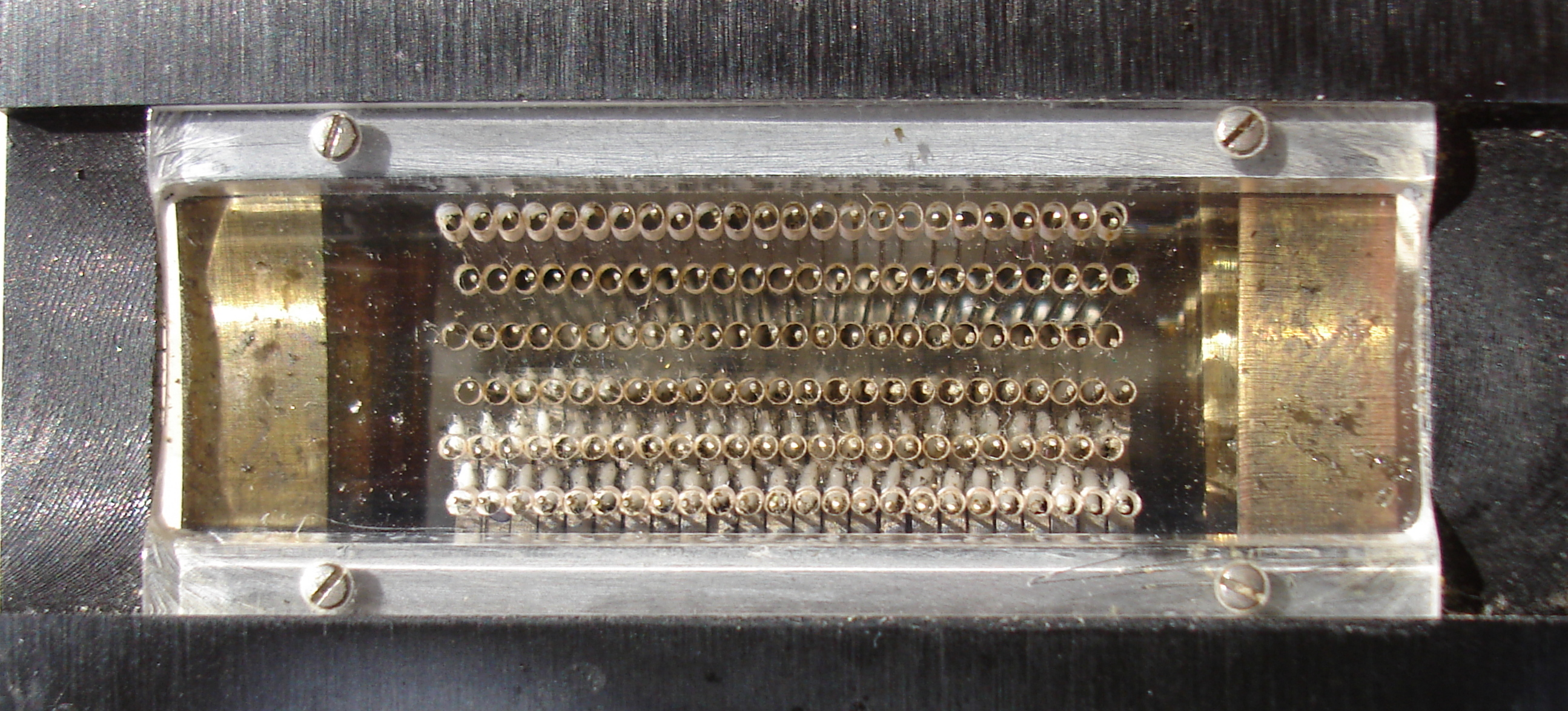 A photo of the tactile array used in the Optacon reading machine for the blind